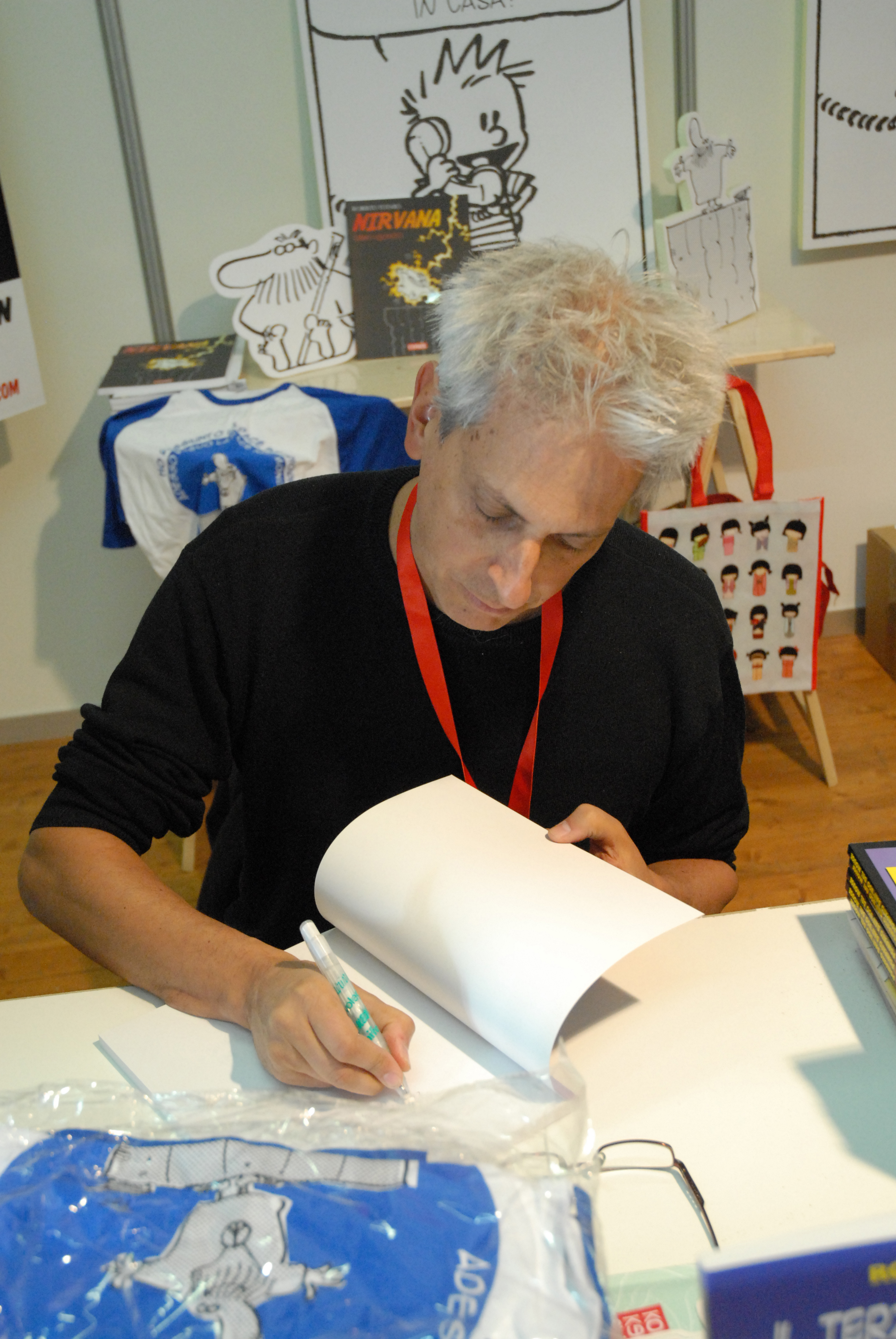 Roberto Totaro Photo taken during Lucca Comics&Games 2010